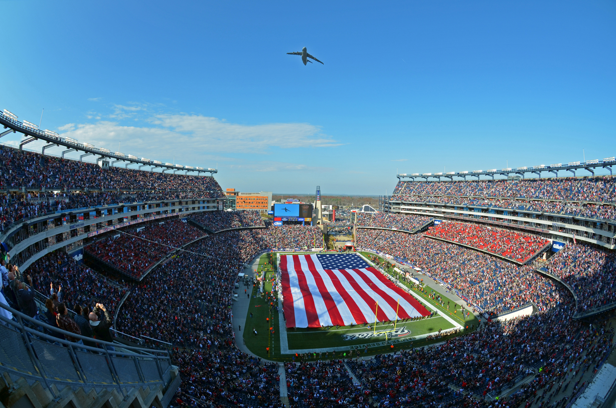 A C-5 Galaxy performs a flyby over Gillette Stadium, Foxboro, Mass., Nov. 11, 2012, just before kickoff, to an estimated crowd of more than 68,000. The C-5 is assigned to Westover Air Reserve Base, Mass. (U.S. Air Force photo/Senior Airman Kelly Galloway)